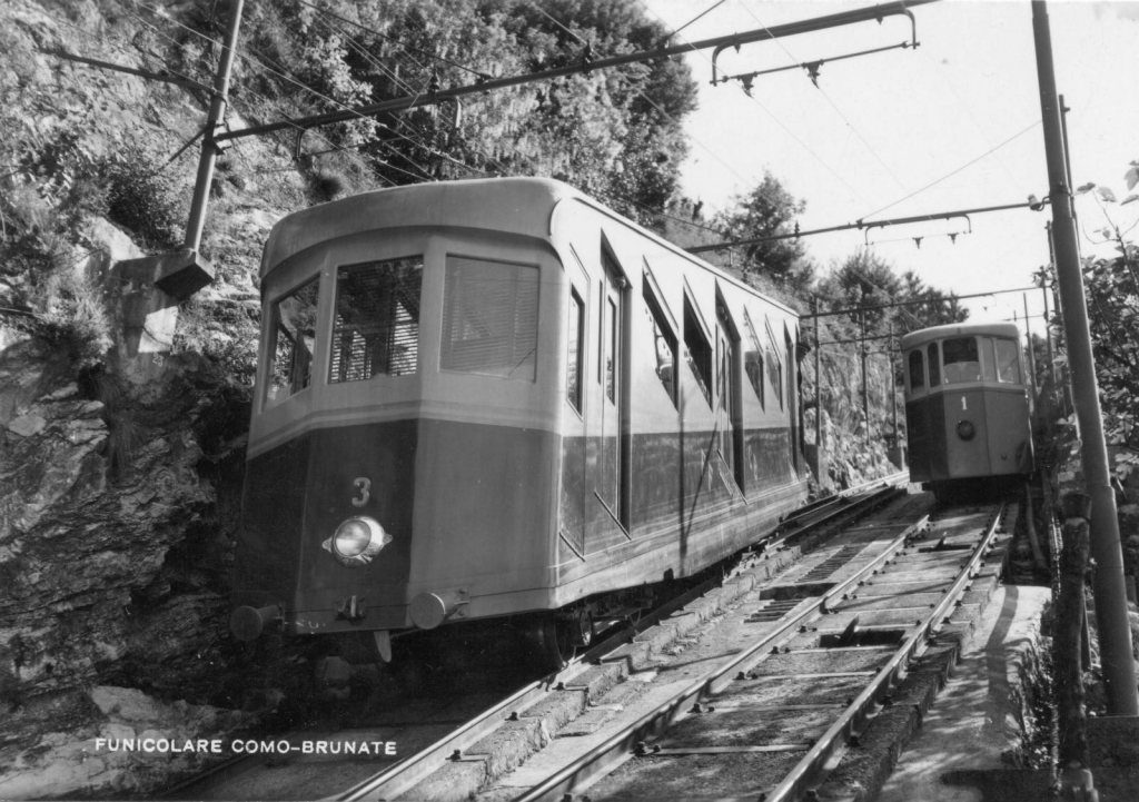 Como-Brunate funicolar - 1950s